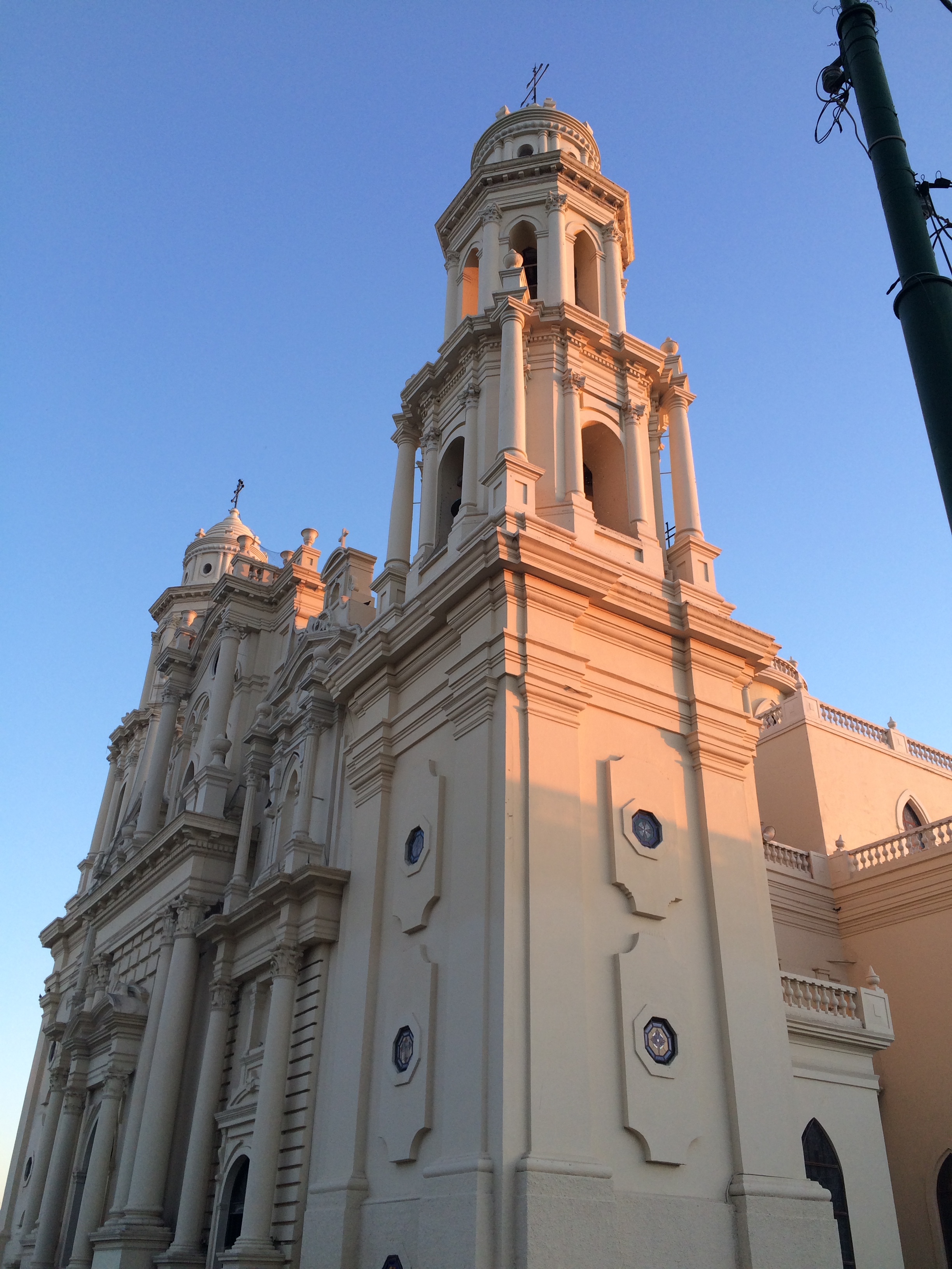 Hermosillo's Cathedral.